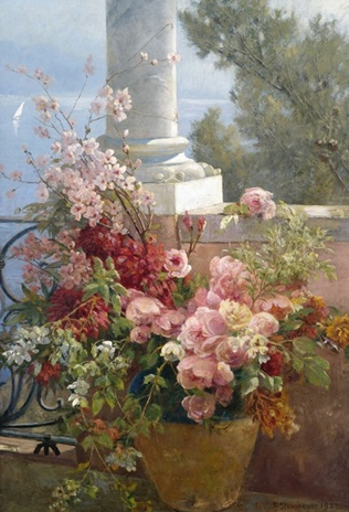 Helene Marie Stromeyer - Flower still life on a lakeside terrace, 1923